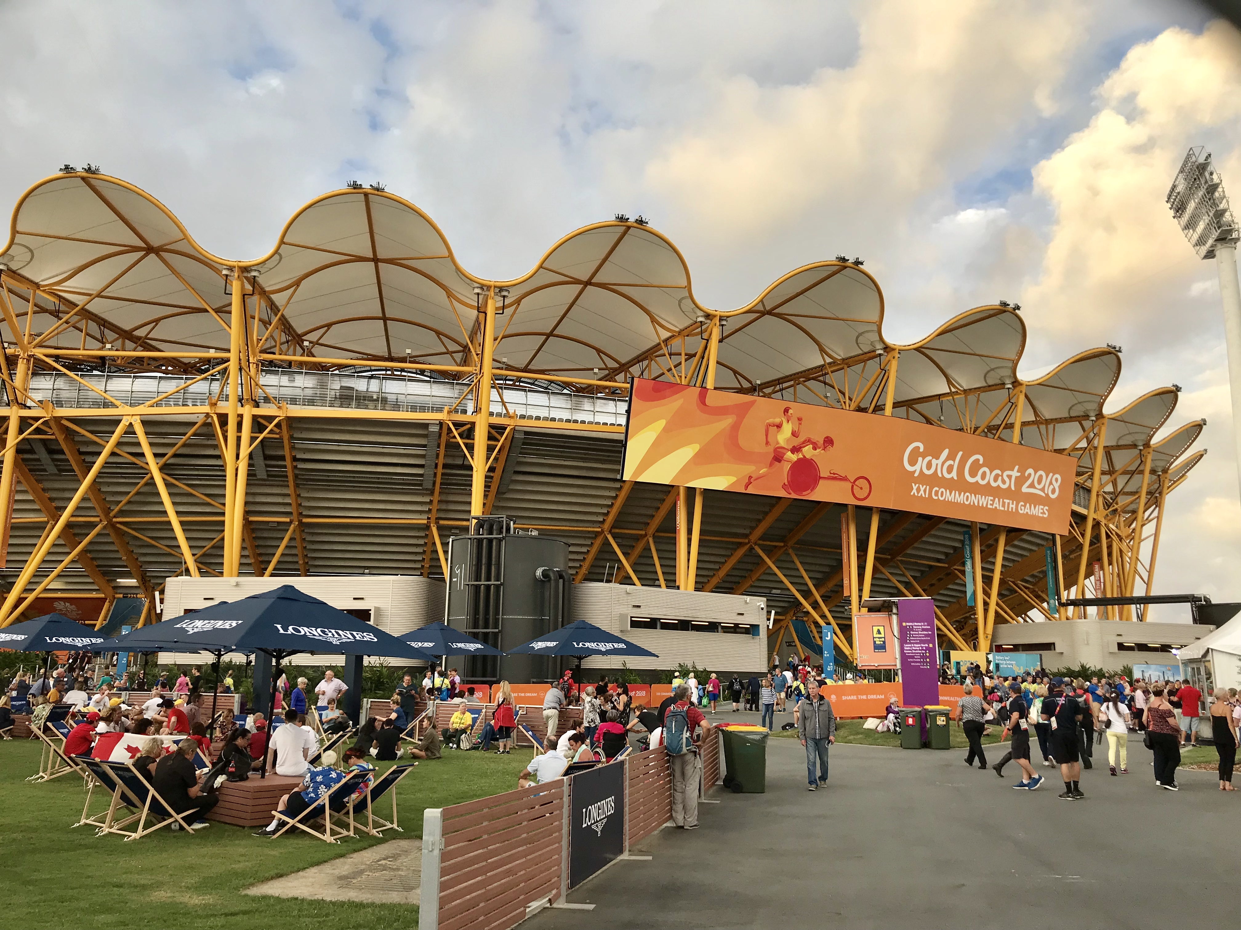 Carrara Stadium, during 2018 Gold Coast Commonwealth Games, Queensland